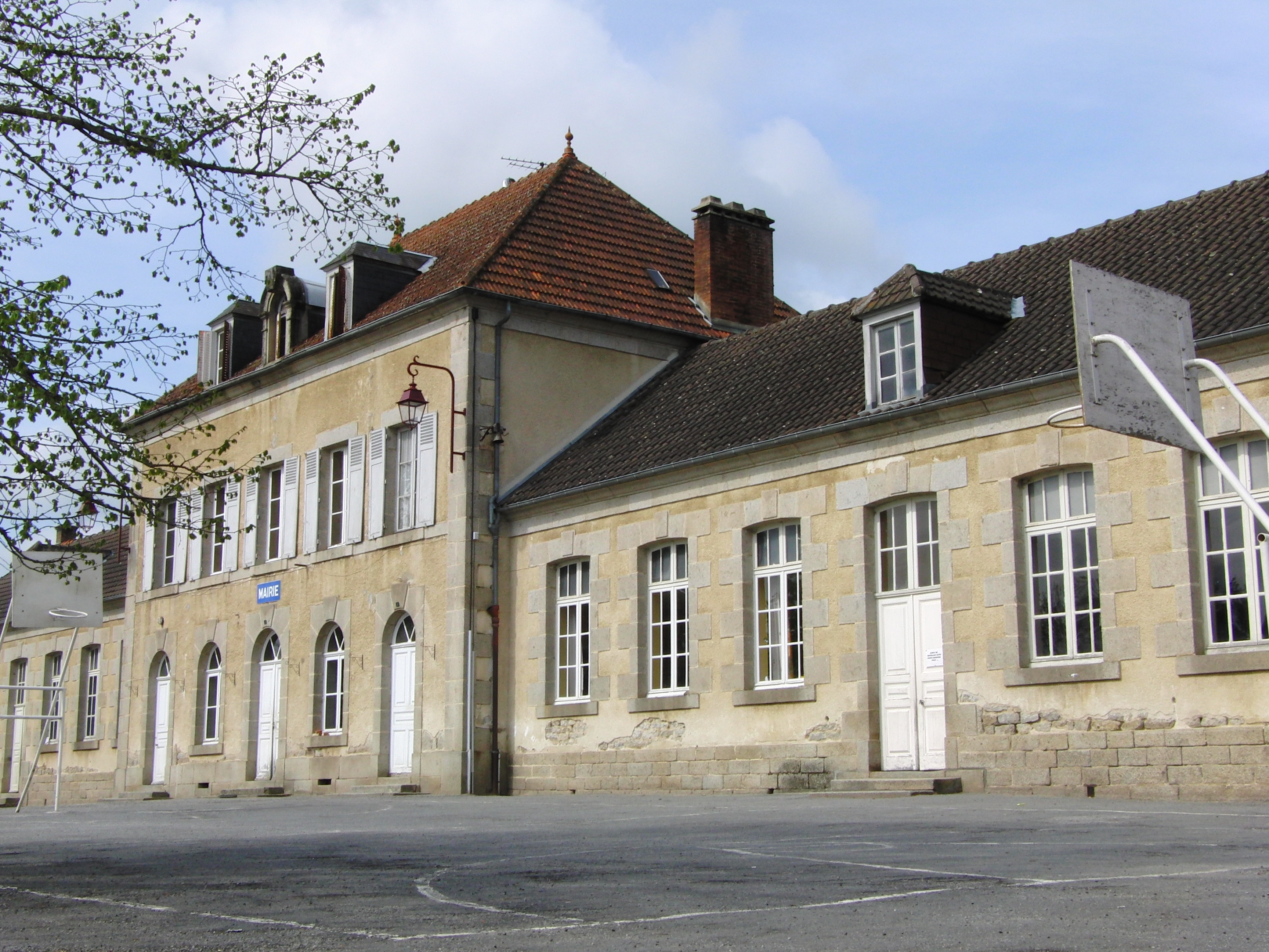 Peyrat-la-Nonière town hall